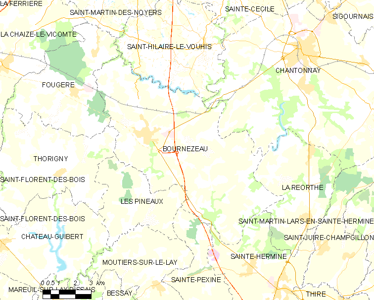 Map of French municipality Bournezeau